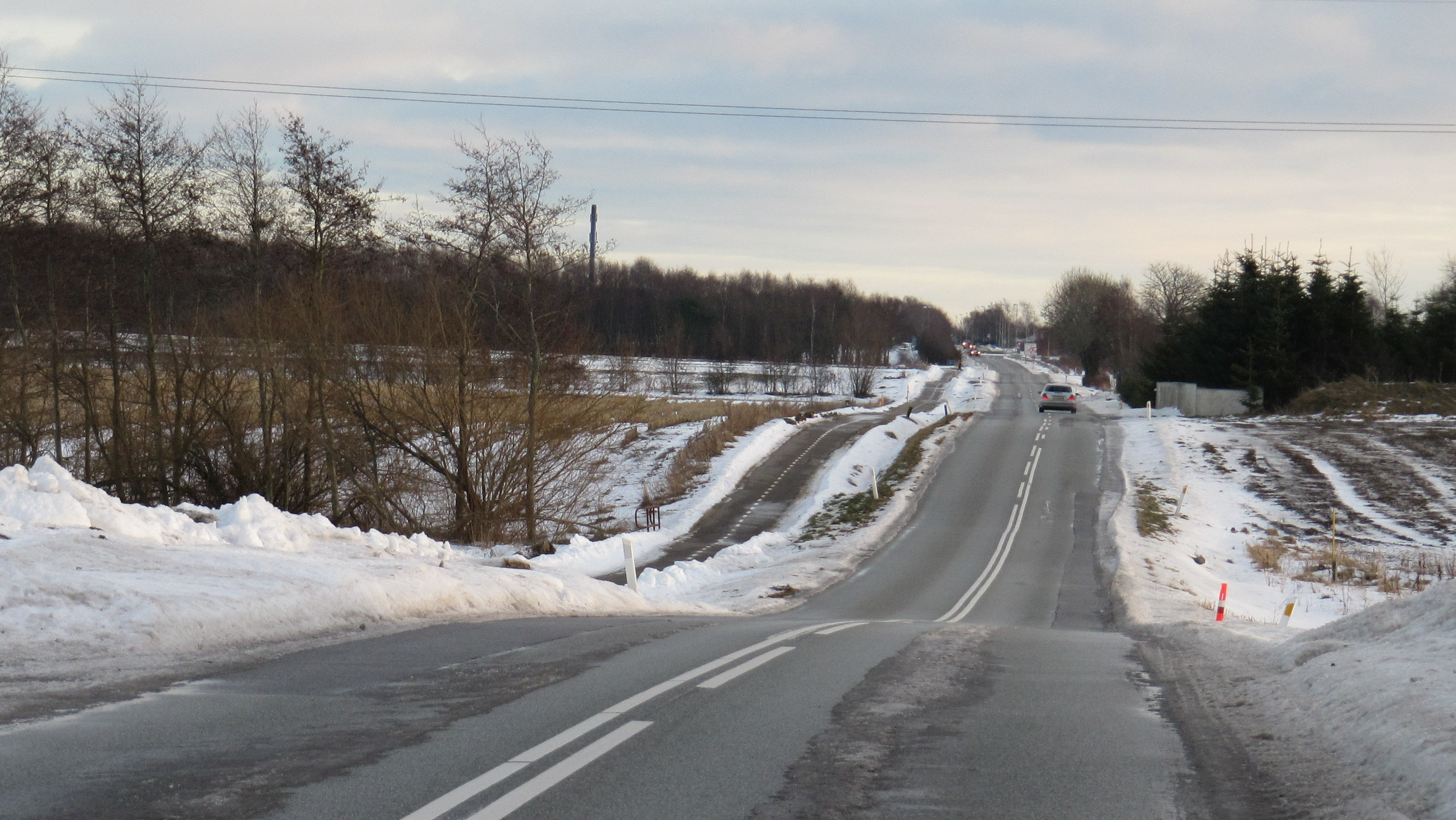 Halsvej with bike lane between Stae and Vester Hassing